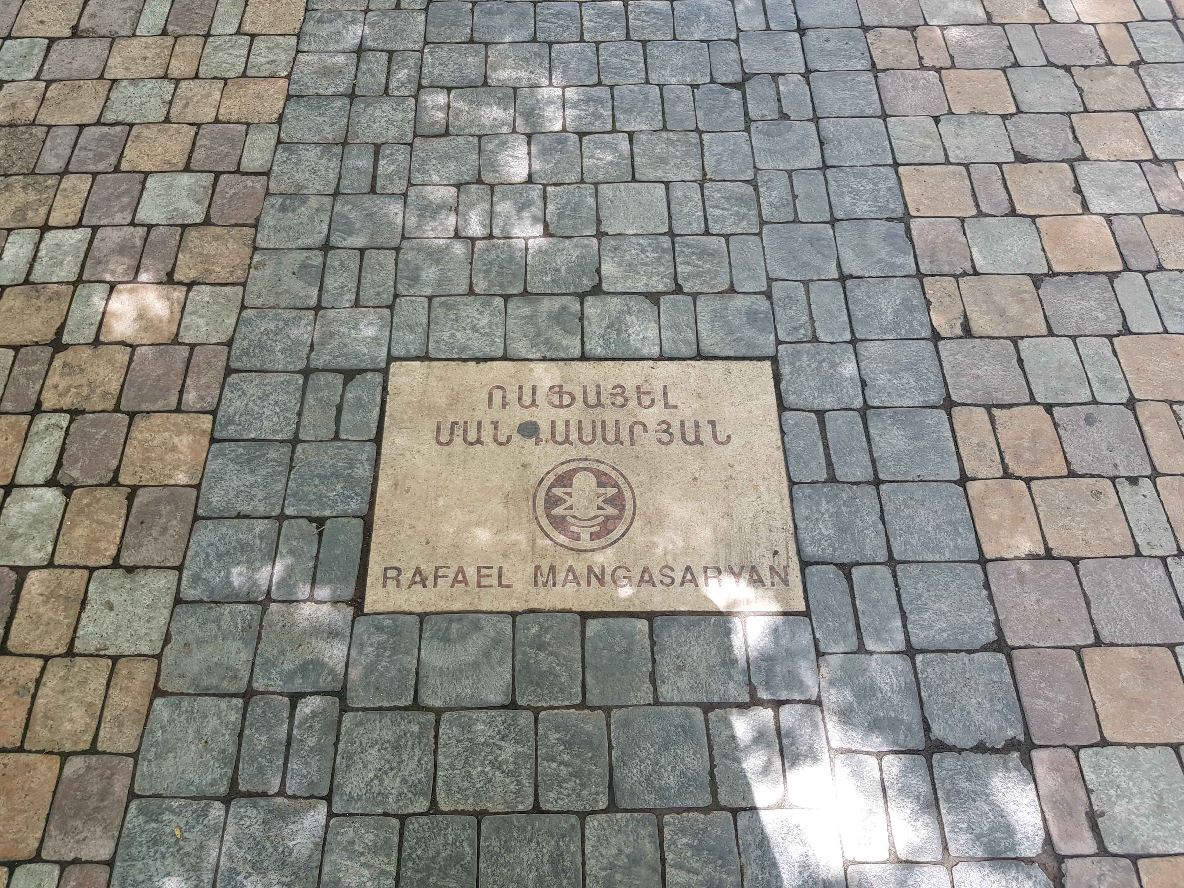 Alley of Devotees, Yerevan